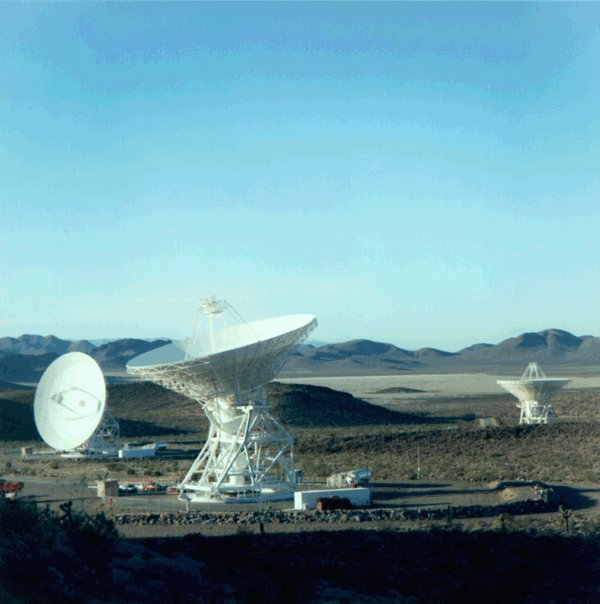 Goldstone Deep Space Network Copyright status Public domain: NASA JPL